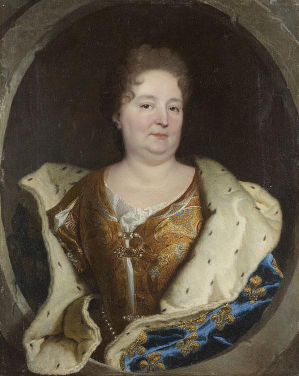 Portrait of Elisabeth Charlotte of the Palatinate (1652-1722), Duchess of Orléans